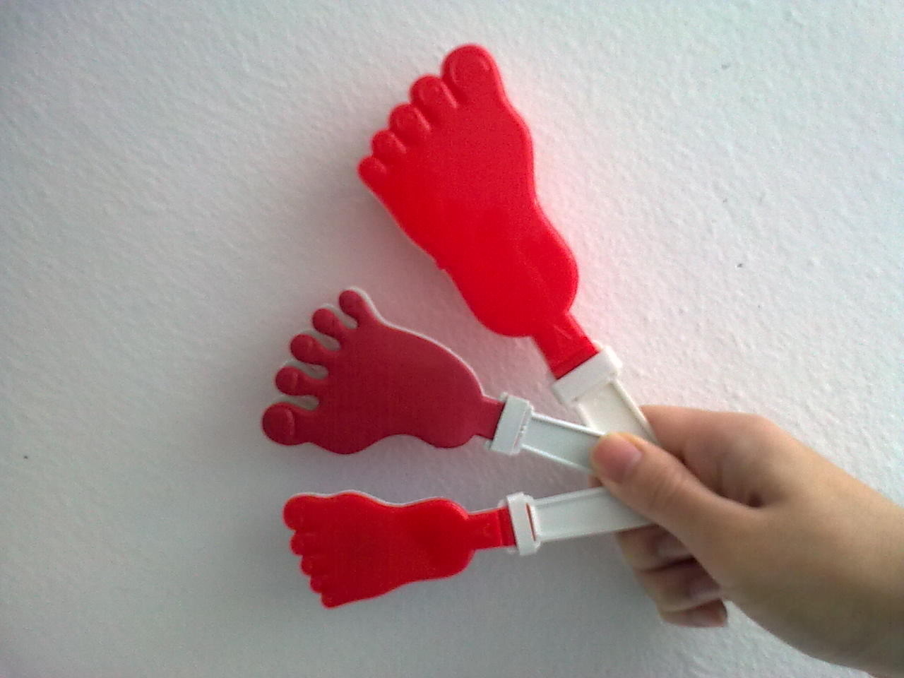 Variety sizes of feet clapper.